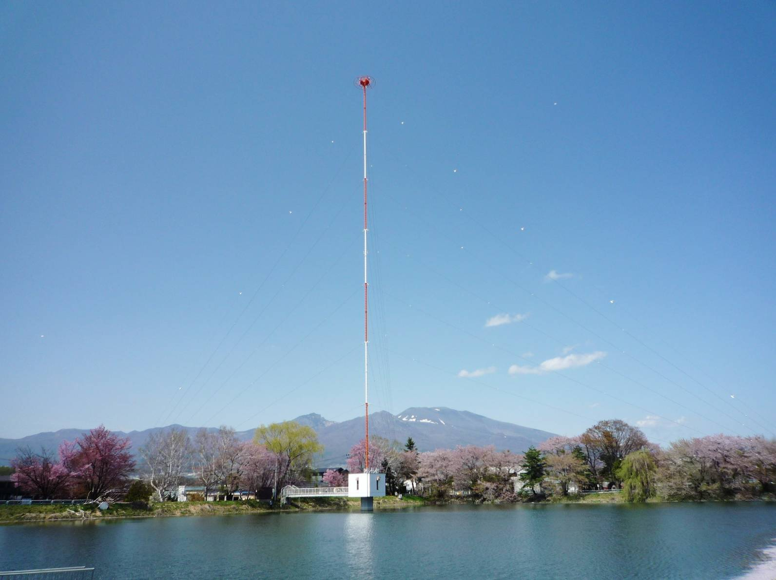 Lake Senroku, Mount Asama.